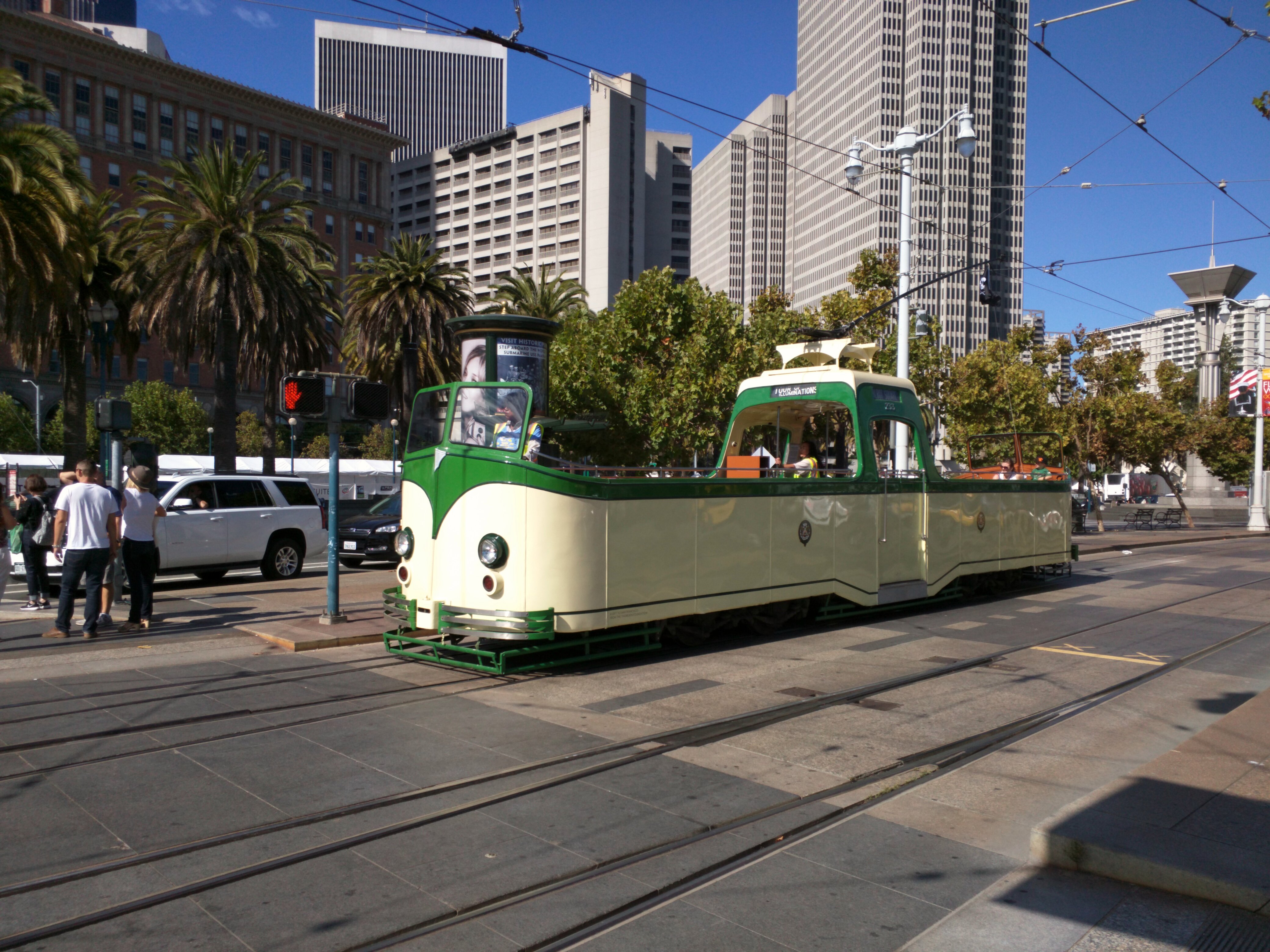 233 boat tram! #muniheritage